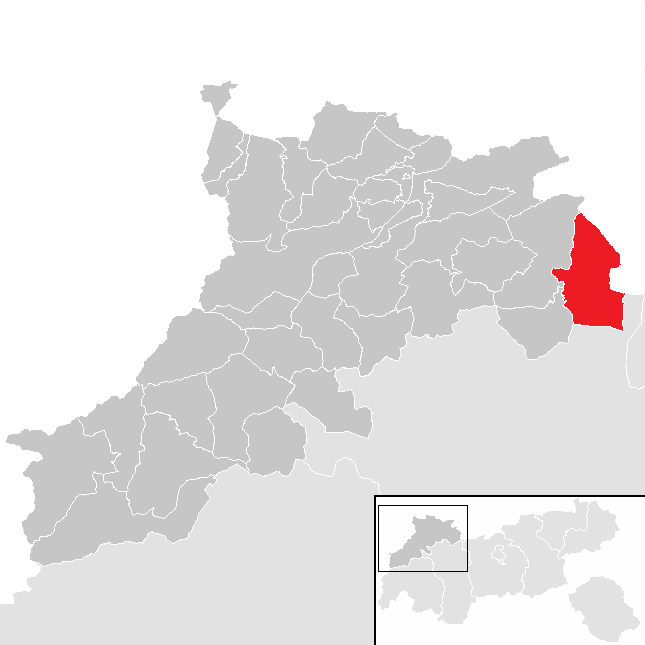 District Reutte